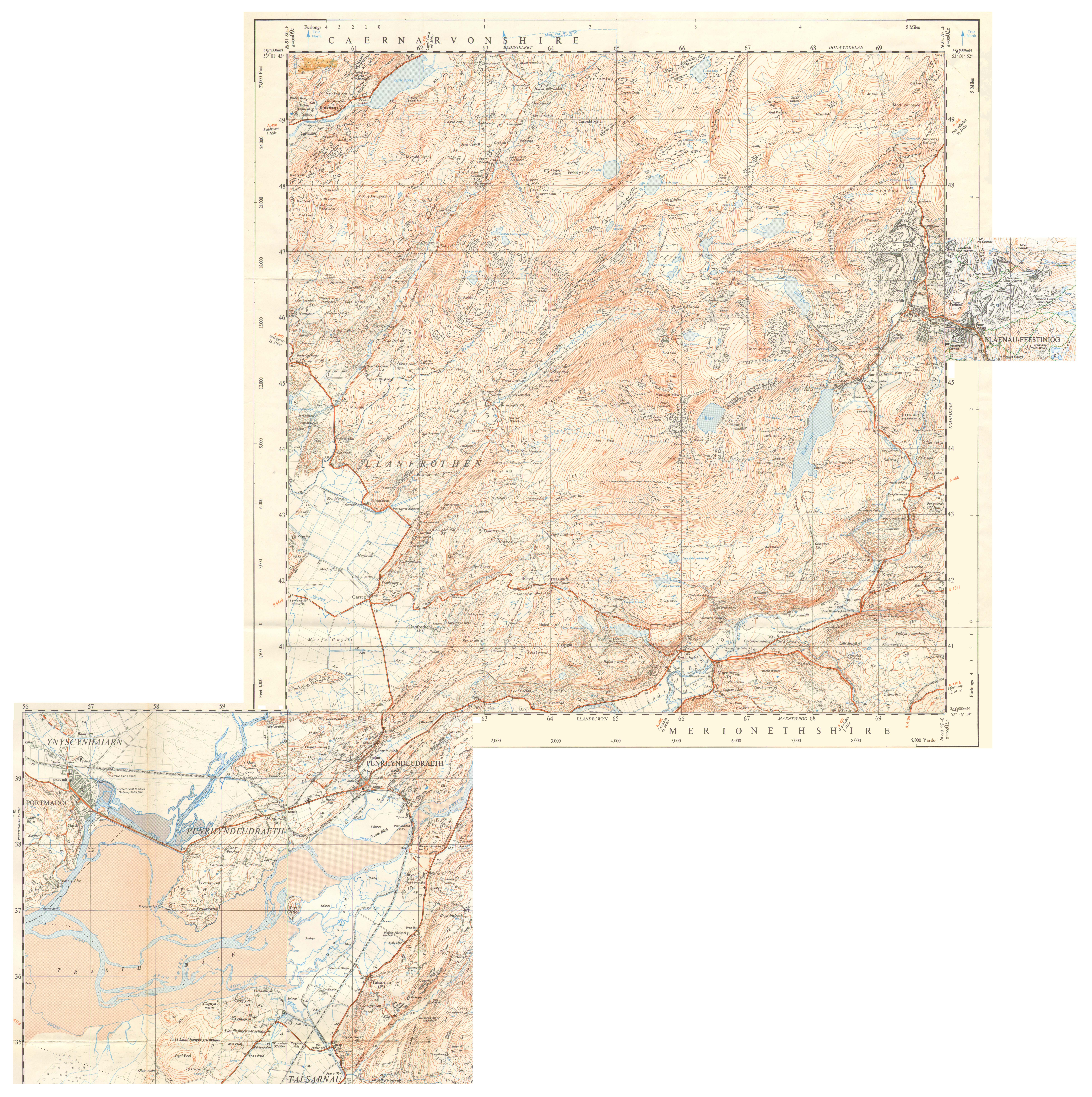 OS map showing the Ffestiniog Railway about 1953, at a scale of 1:25,000. The map shows the railway after the construction of the Llyn Ystradau reservoir flooded a section of the track bed, but before the deviation was built to carry the railway around the western shore of the reservoir. The map is a composite of sheets SH 63, SH 64, SH 74 (1953) and SH 53 (1956)